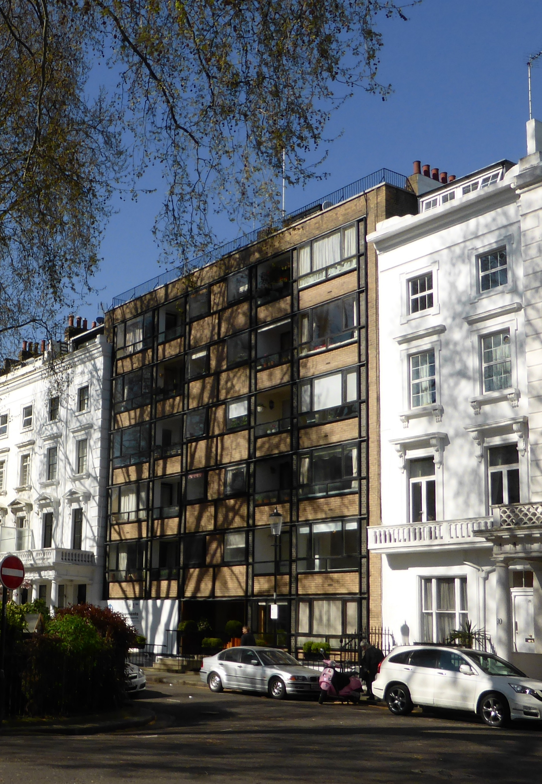 Apartment building at 22–26 Ovington Square, Knightsbridge, London, by Walter Segal, 1957